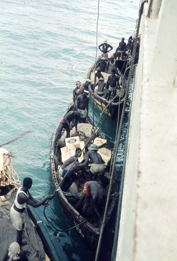 Workers in the long side lying boats